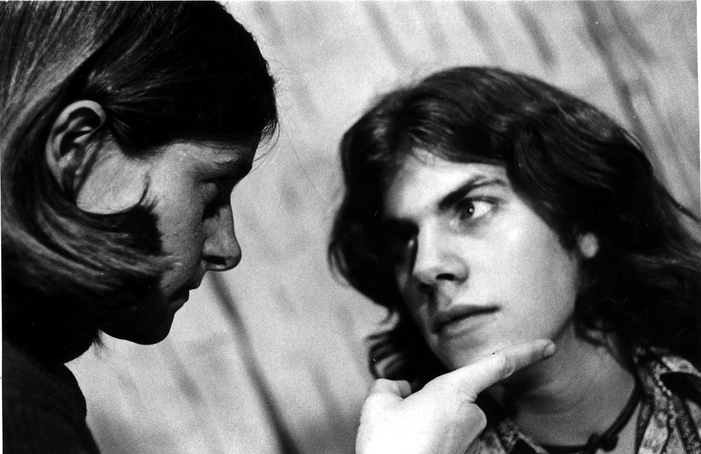 Bridget Bentele and Brad Mays in a scene from "Wolves," a play by Gordon Porterfield, directed by C. Richard Gillespie for Corner Theatre, ETC.